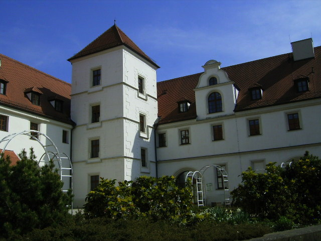 Electoral armory in Amberg, Baviera, Germany